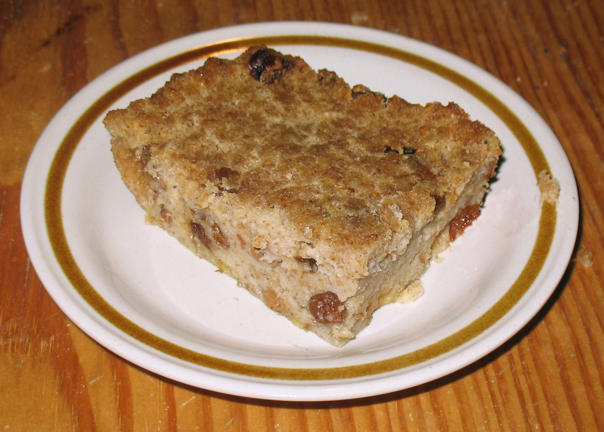 A slice of plain bread pudding